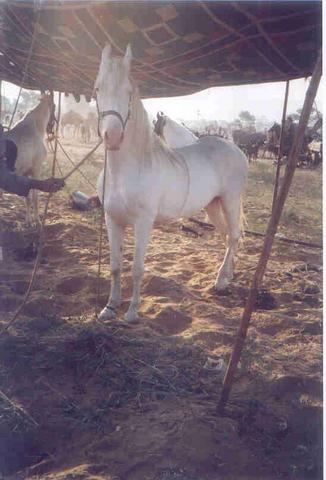 One of the costliest "Albino Marwari breed" horse for sale at the World famous "Pushkar Camel and cattle fair" at Pushkar near Ajmer in Rajasthan.